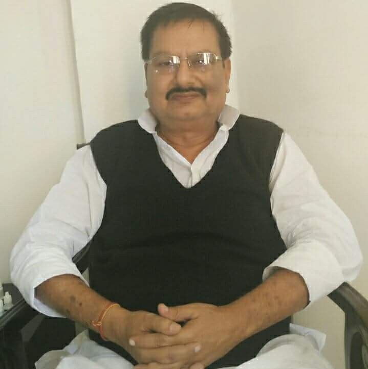 Prof. Anil Kumar Yadav